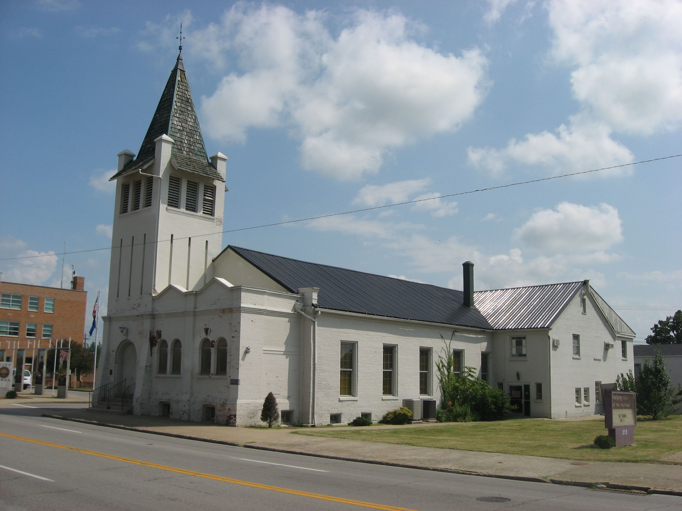 Front and western side of First Presbyterian Church, located at 212 W. Dixie Avenue (U.S. Route 31) in Elizabethtown, Kentucky, United States. Built in 1896, it is listed on the National Register of Historic Places.